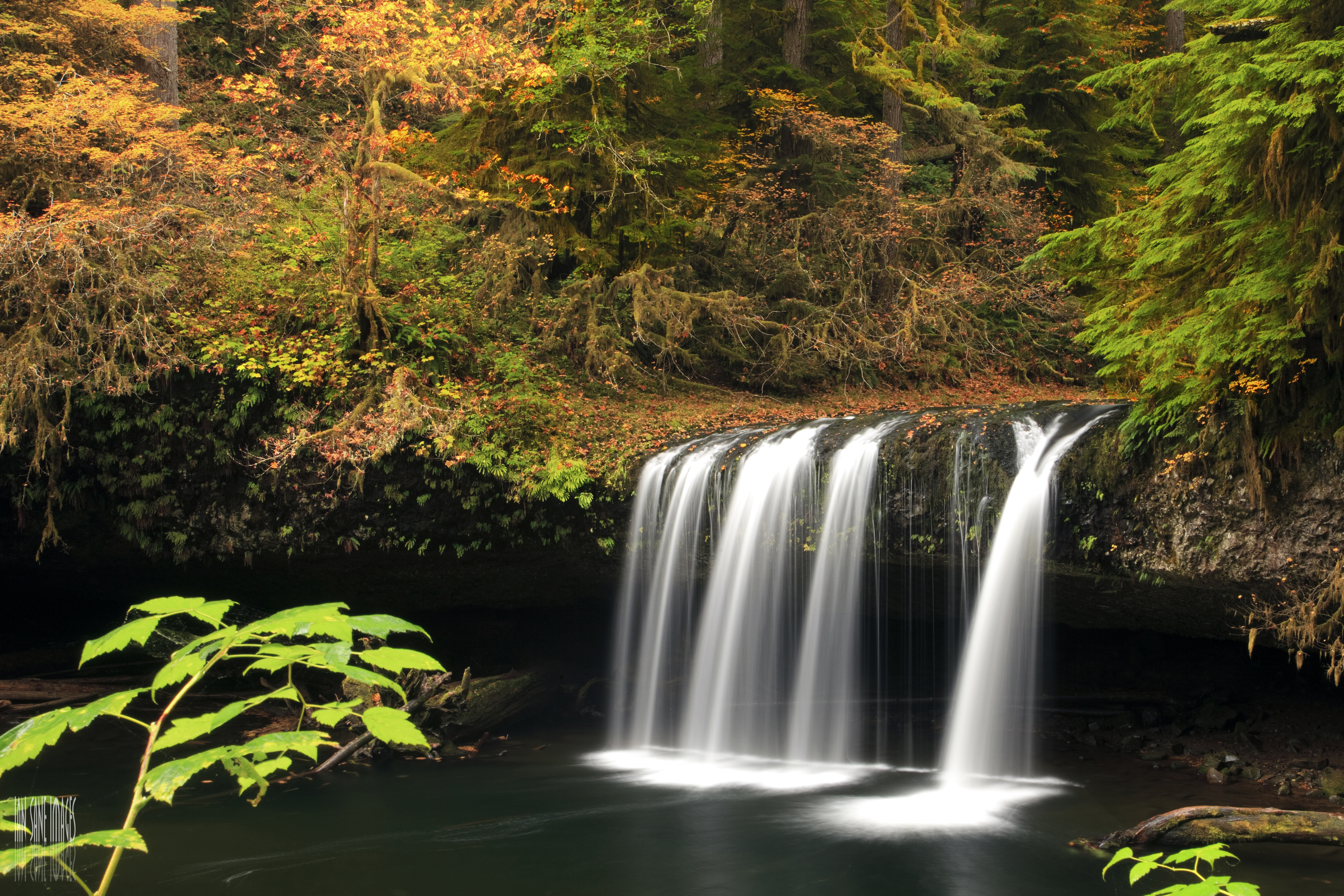 I entered a war zone to catch this. While out on the trail I passed several pick-ups and couldn’t help but notice all of the drivers were decked-out in camo. Plus, I heard gunshots off in the distance. Yup! I had forgotten it was hunting season. Whatever! This is the Upper Butte Creek Falls. I photographed the upper and lower falls this past summer and found both were difficult to make interesting, so much that I ended up deleting all of the pictures. However, autumn colors will cover a multitude of sins so I thought I would give it another go, even if it were hunting season. Geez, the freaking chances I take as a photographer. =)